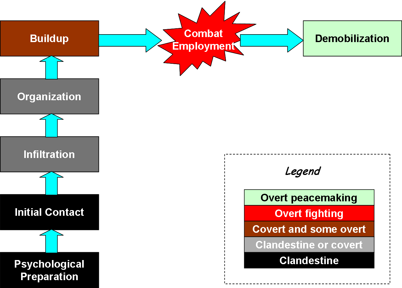 Stages of U.S. Army Special Forces doctrine for unconventional warfare